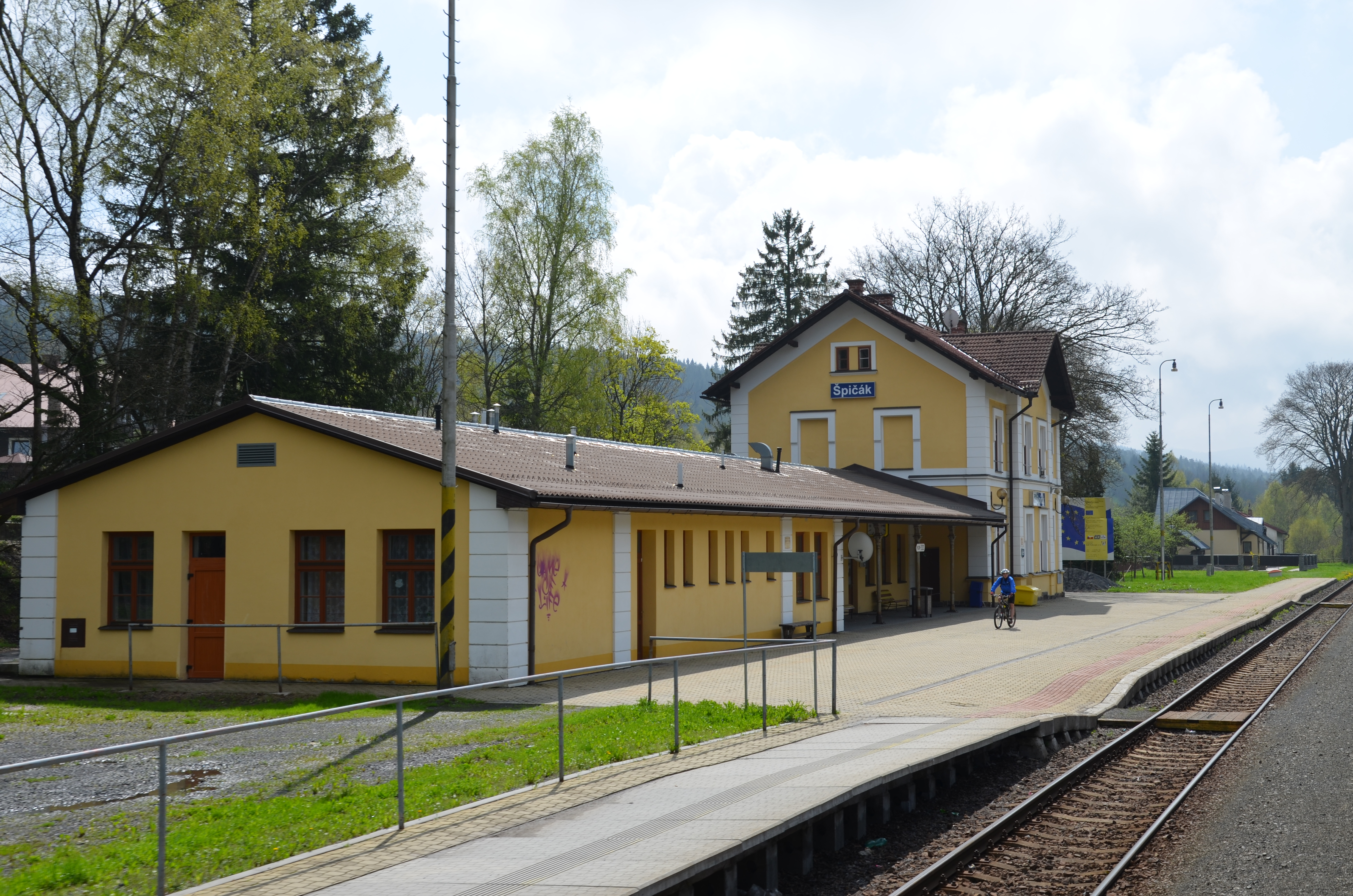 Špičák train station